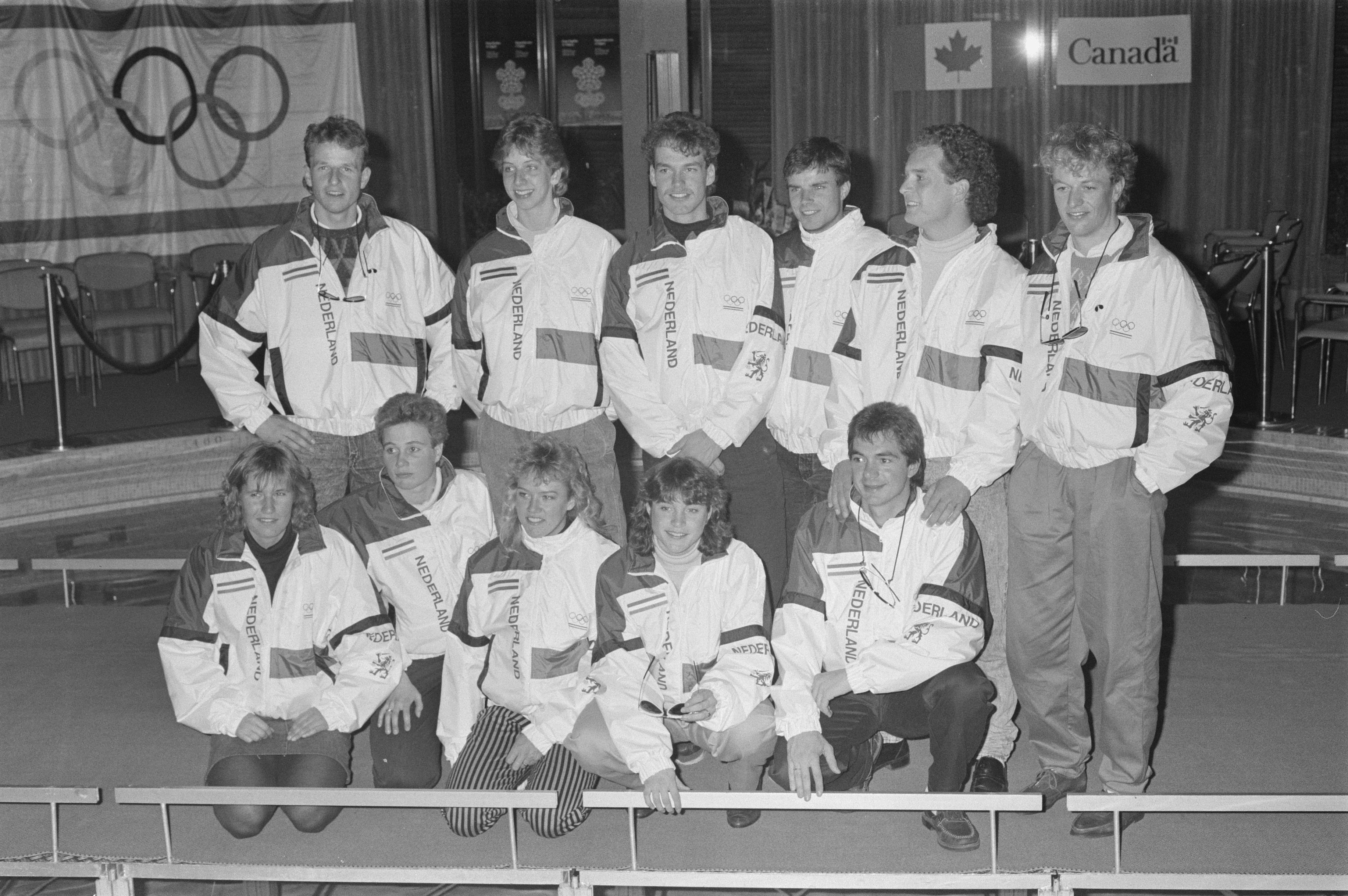 Dutch speedskating Olympic team 1988. Left-right: Leo Visser, Christine Aaftink, Herbert Dijkstra, Menno Boelsma, Jan Ykema, Gerard Kemkers; sitting Marieke Stam, Ingrid Haringa, Ingrid Paul, Yvonne van Gennip, Hein Vergeer